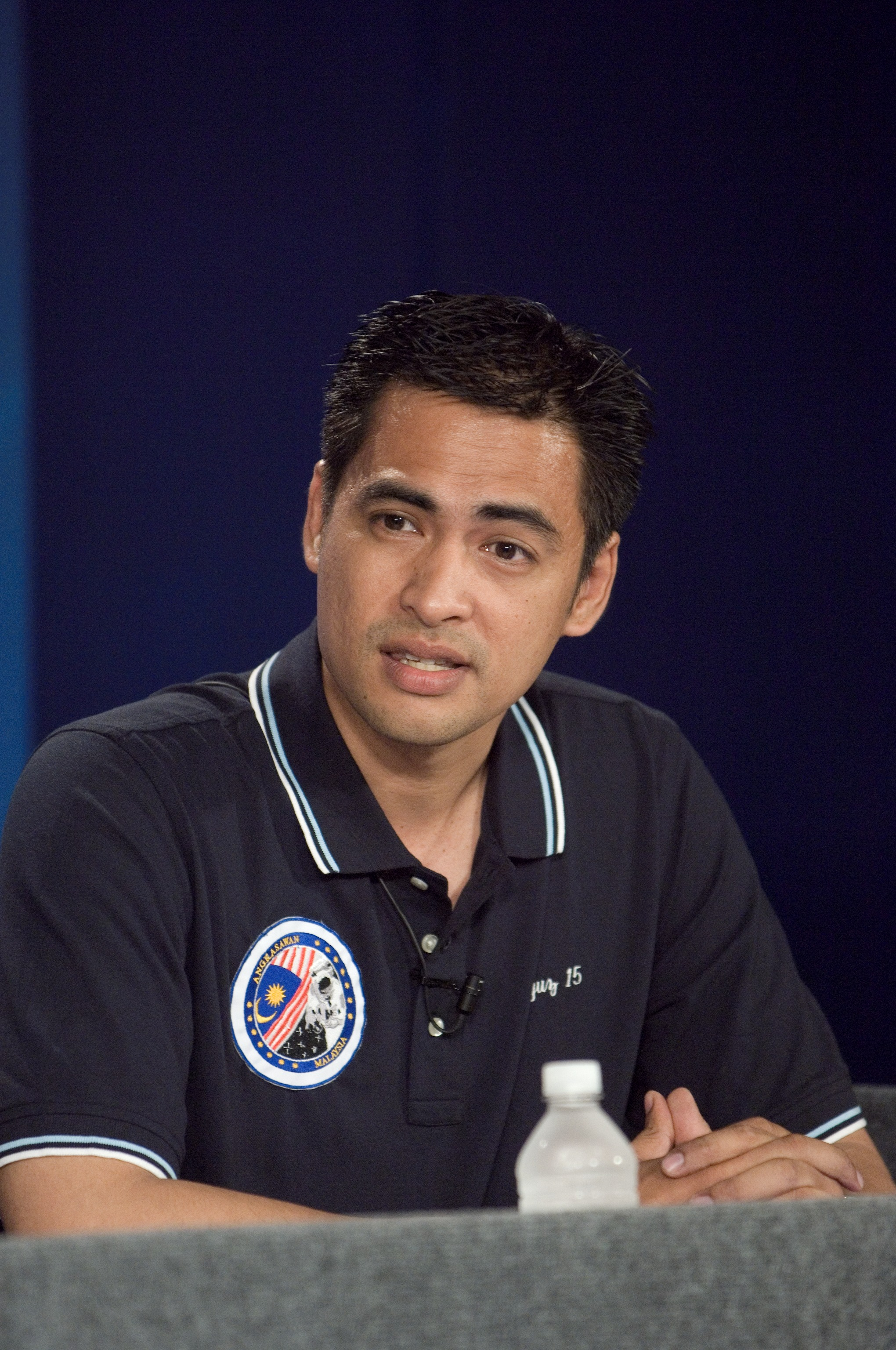 Malaysian spaceflight participant Sheikh Muszaphar Shukor responds to a query from the media during an Expedition 16 pre-flight press conference at the Johnson Space Center.